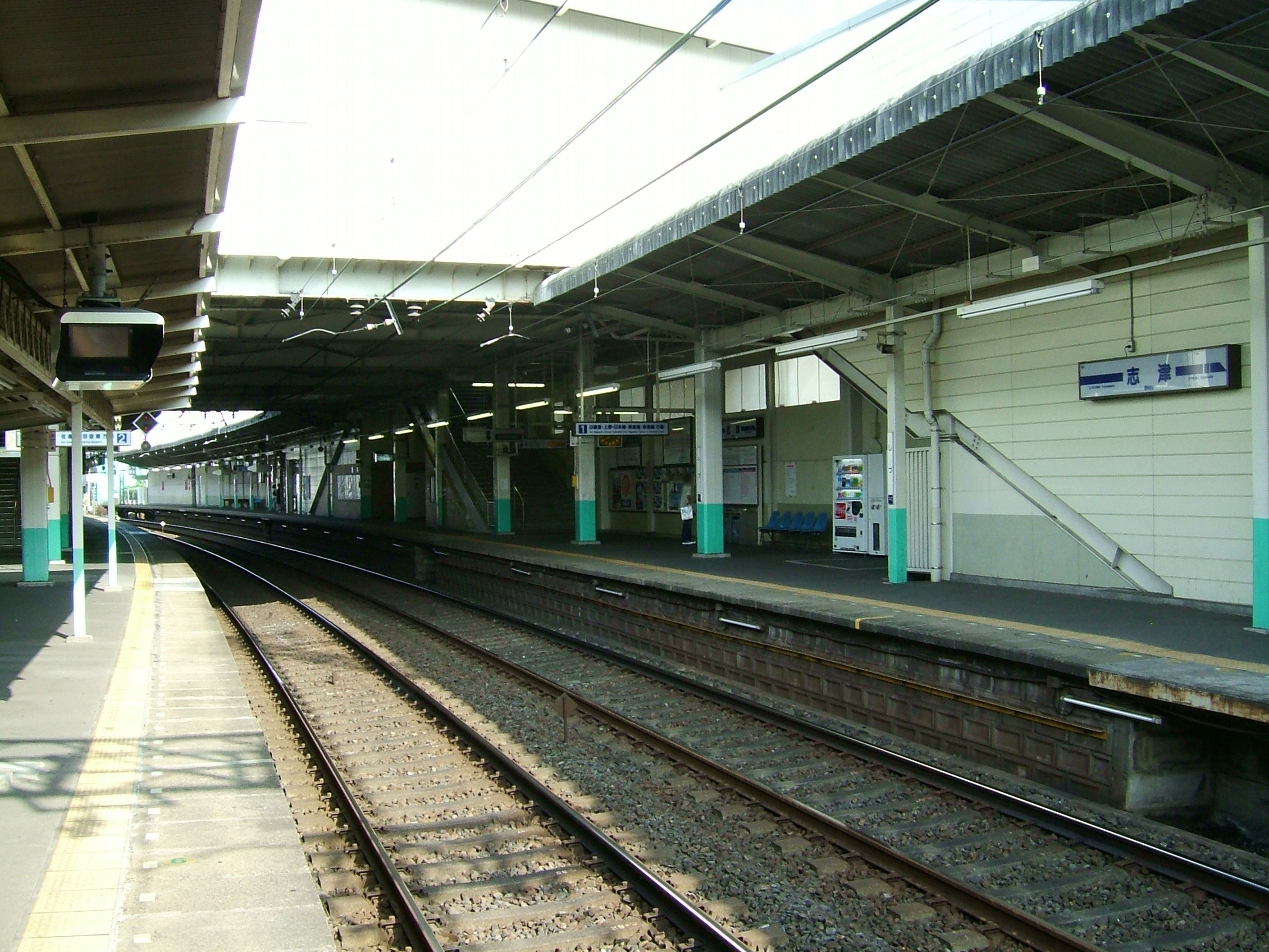 Shizu Station platform(Keisei Main Line)